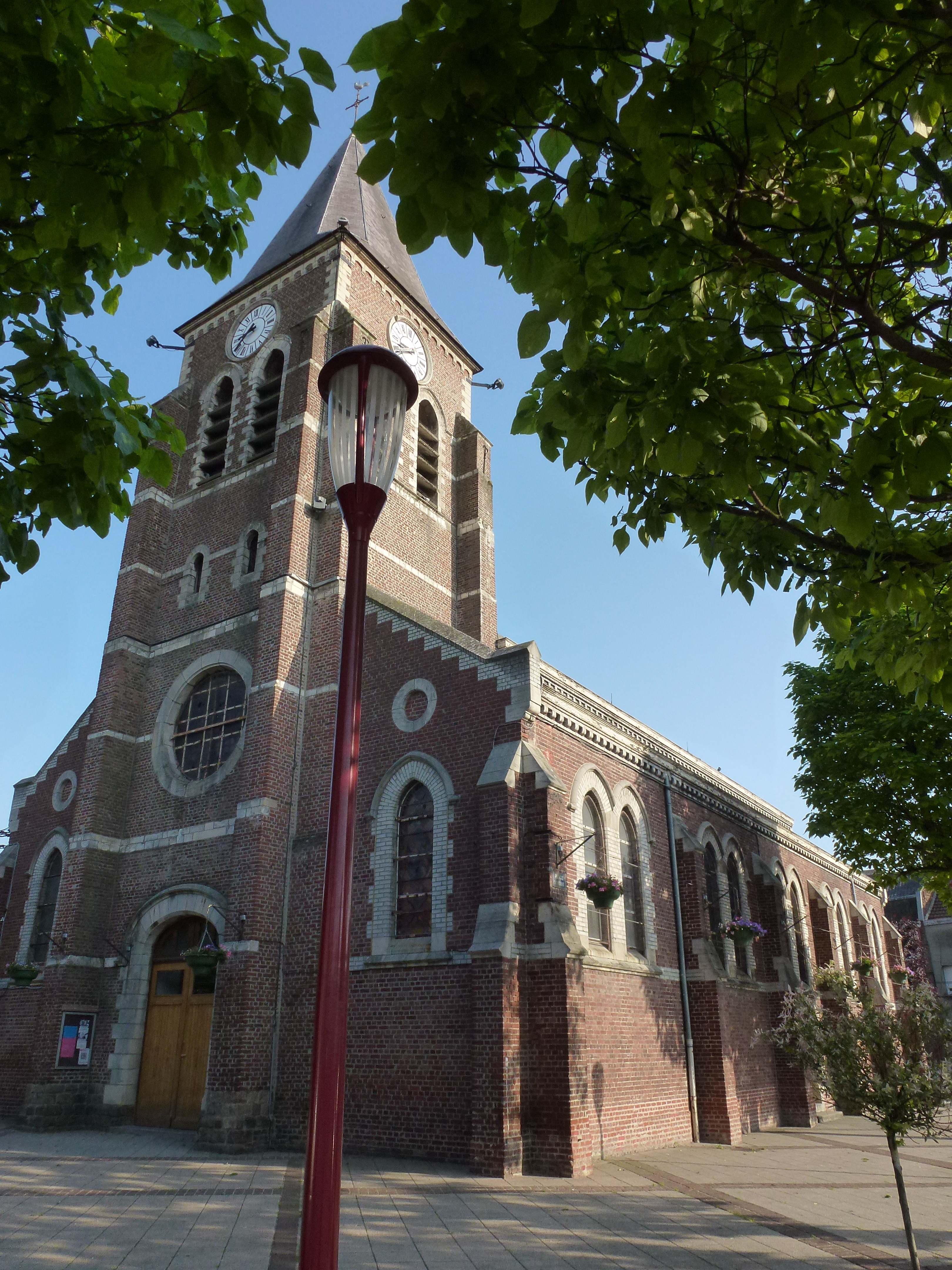 Dourges (Pas-de-Calais, Fr) église